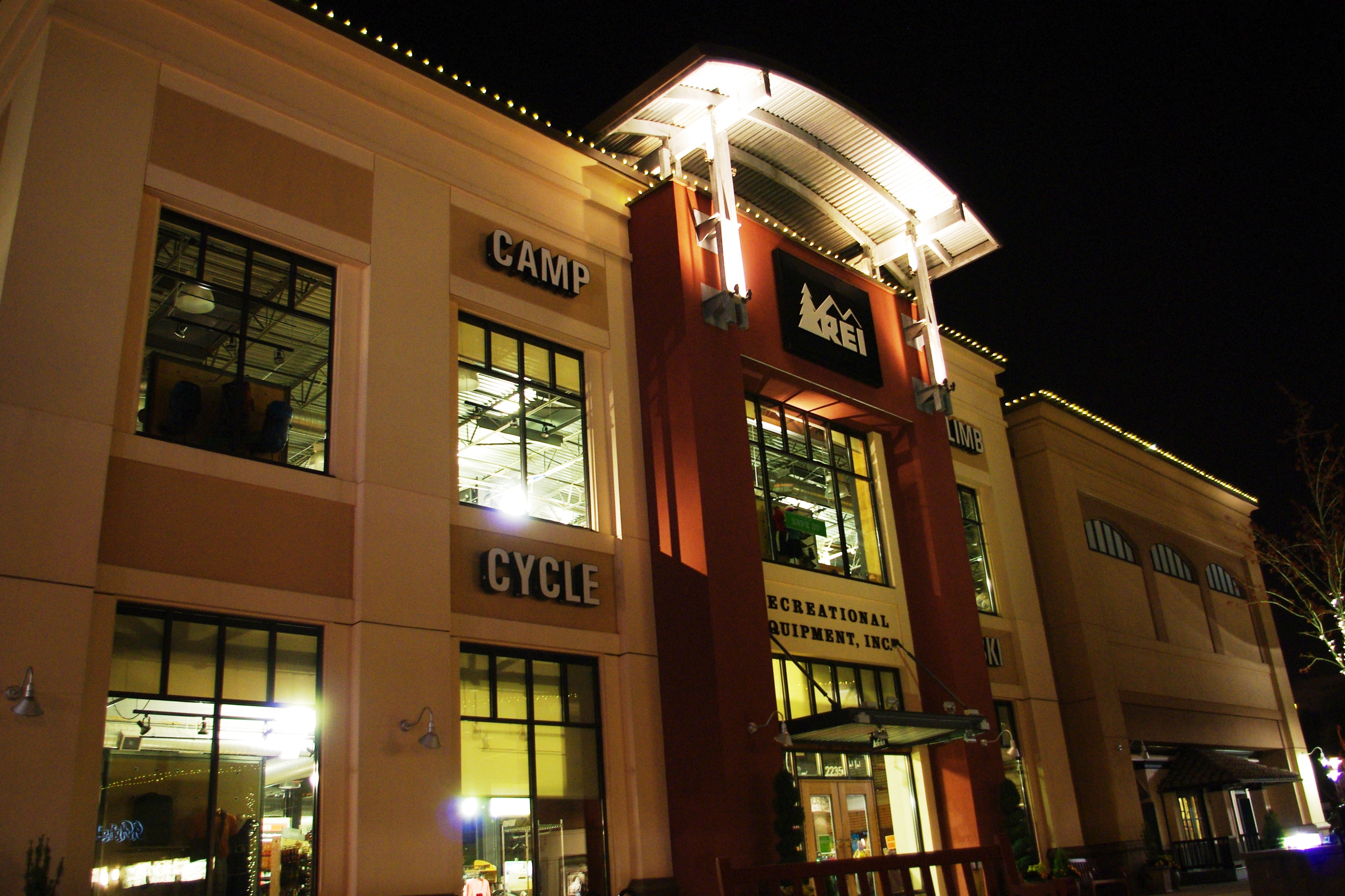 REI location at the Streets of Tanasbourne in Hillsboro, Oregon.